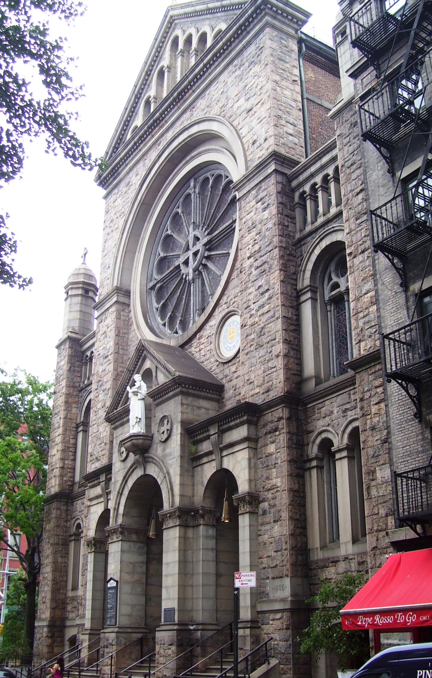 The Church of St. Anthony of Padua, located at 155 Sullivan Street near the corner of West Houston Street, in the South Village section of the Greenwich Village neighborhood of Manhattan, New York City, was built in 1886-88, and was designed by Arthur Crooks in the Romanesque Revival style. The Houston Street face of the building was originally blocked by tenement buildings, which were demolished when Houston Street was widened, exposing the undesigned facade. The church now uses this space as a garden.